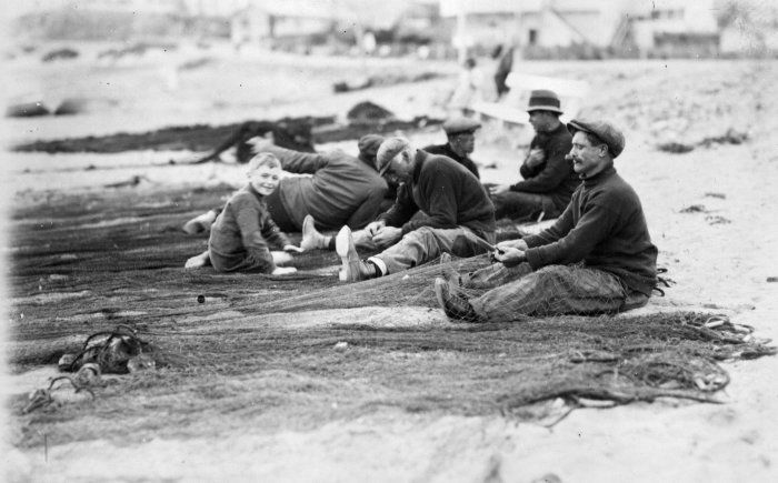 Shows five fishermen sitting by their nets on a beach, with a young boy, Peter Tait, sitting in front of them. Peter Tait became Mayor of Napier.